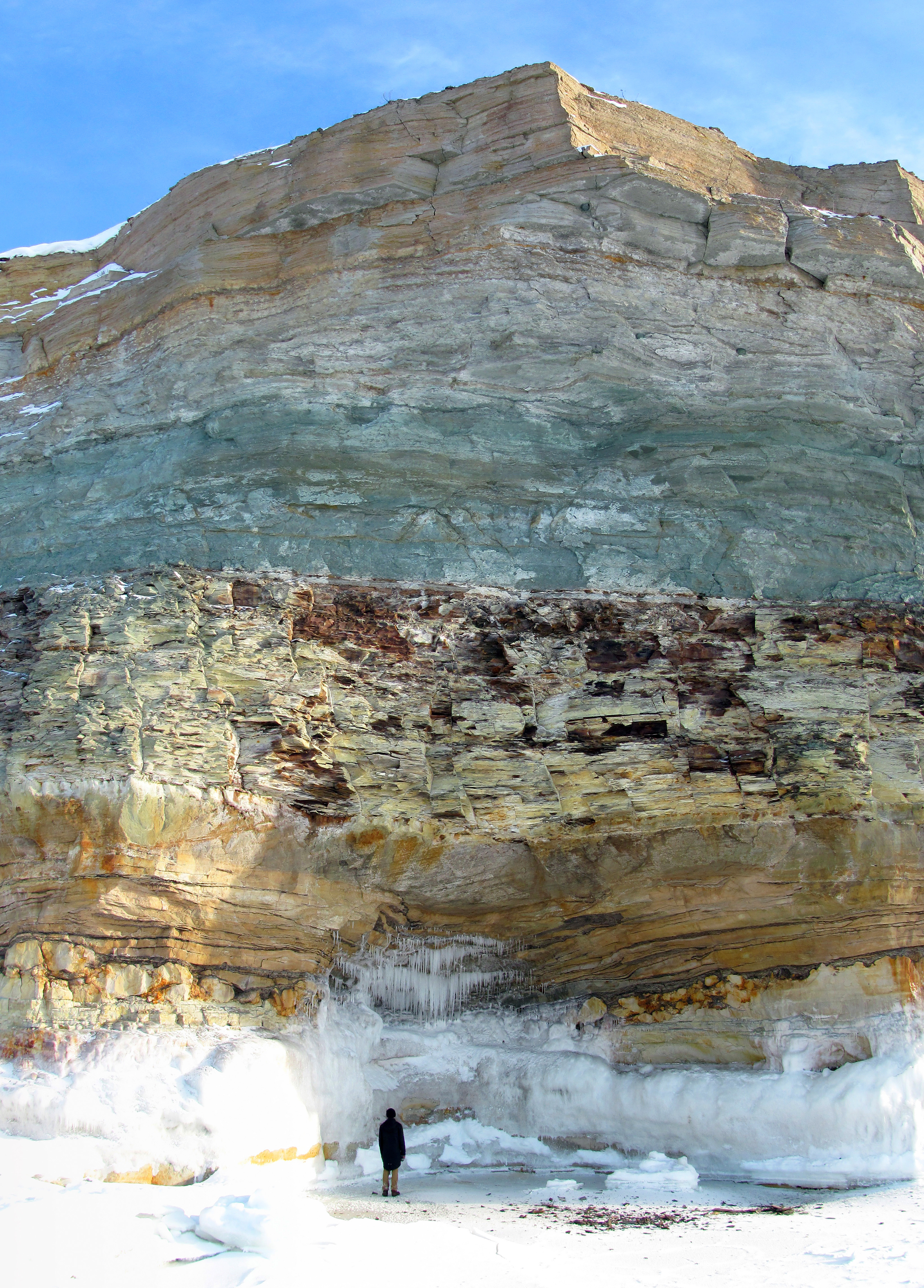 Pakri cliff (h=24 m) near Paldiski, Estonia.